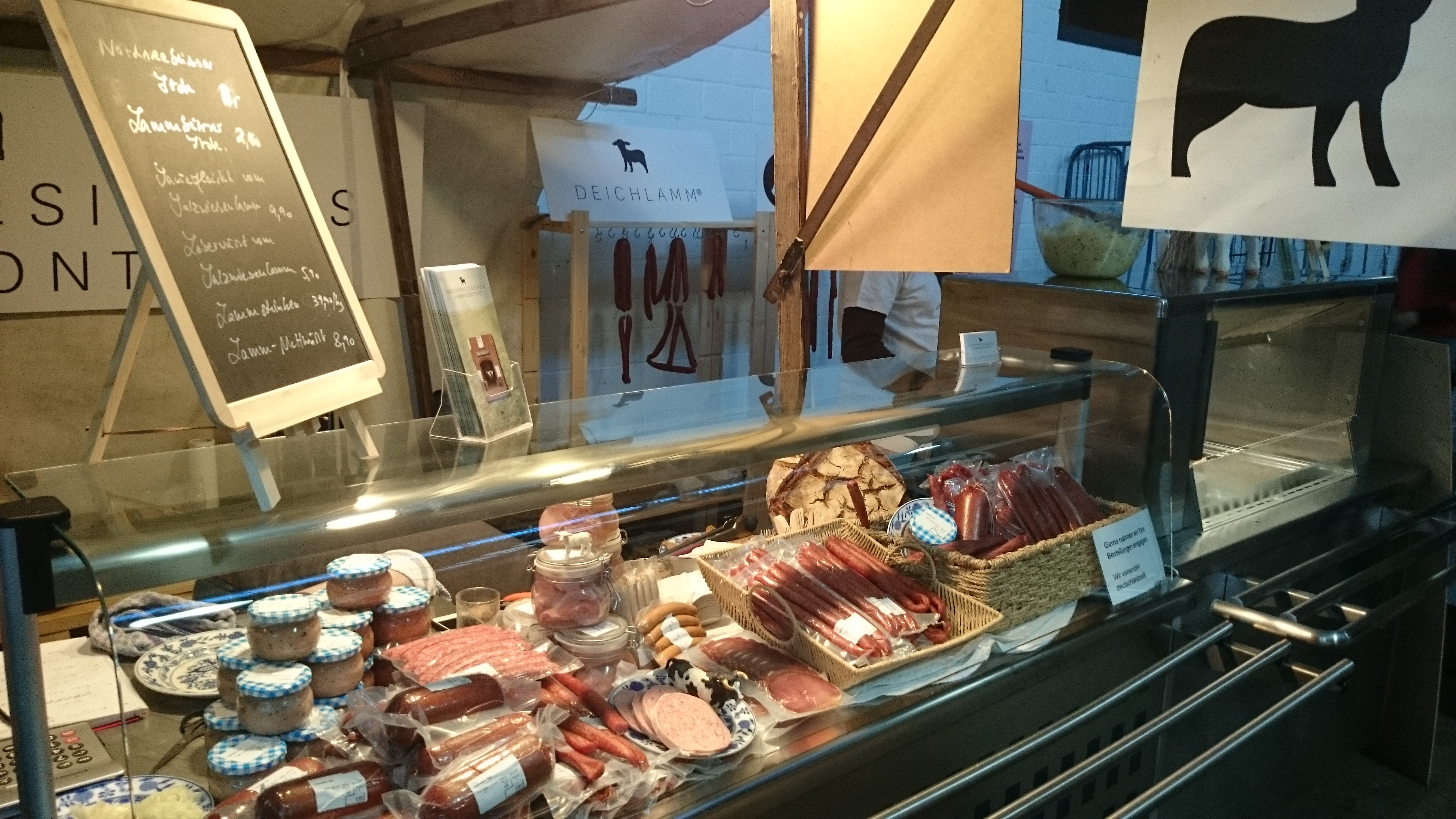 Berlin in spring